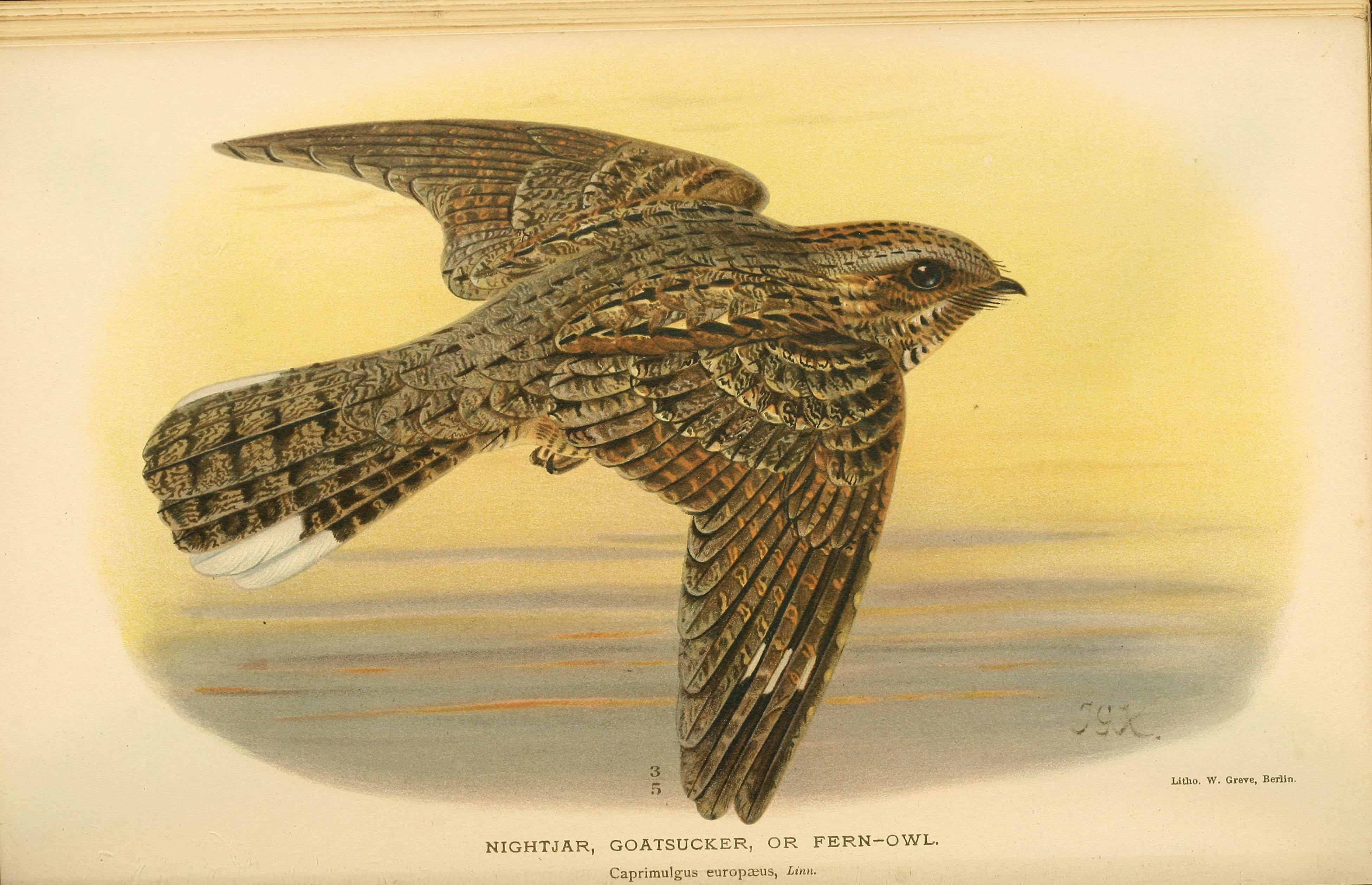 A European Nightjar flying. A lithograph of a painting by John Gerrard Keulemans. It is captioned with its old names.